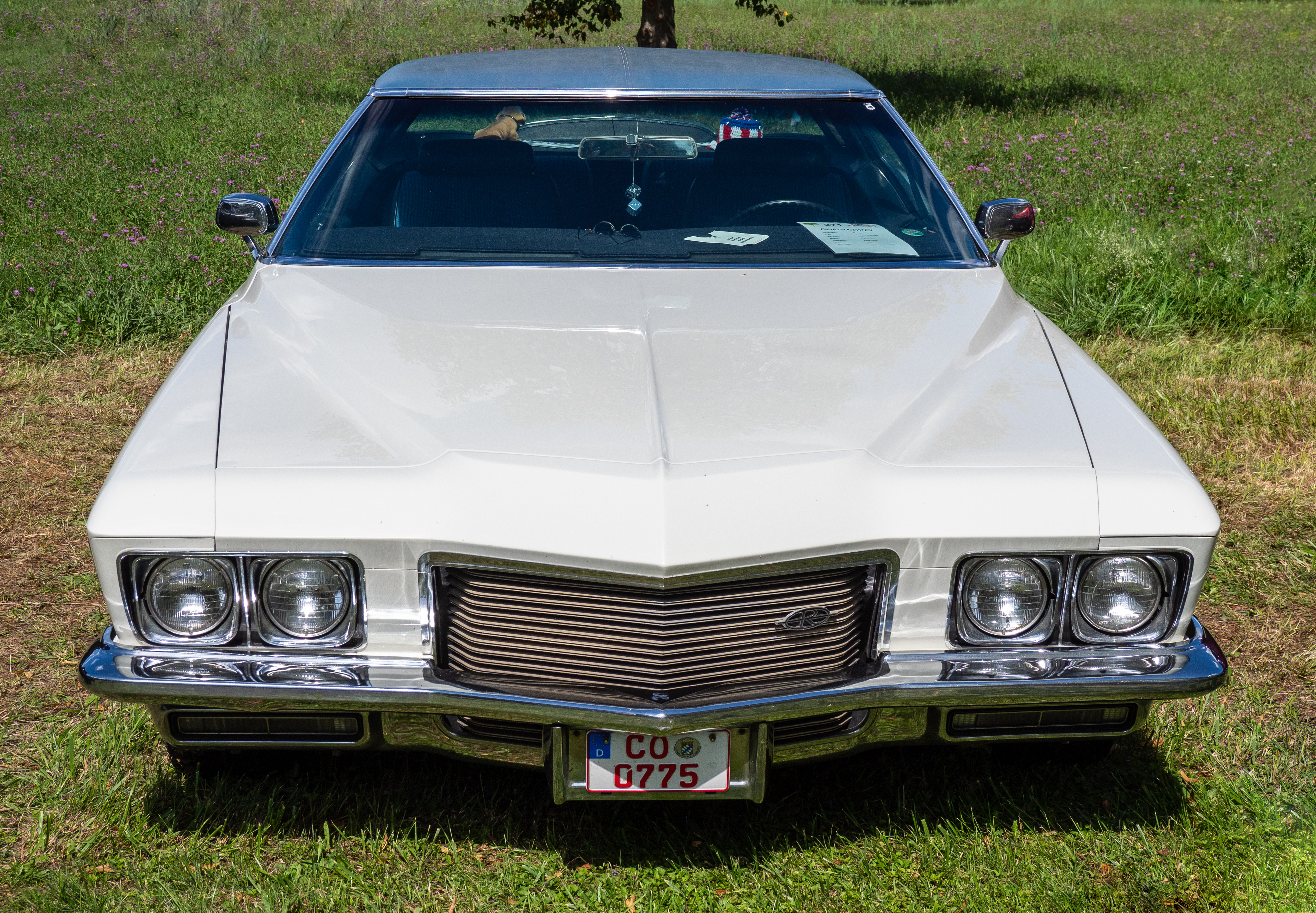 Buick Riviera Boattail 1974 at the Gleisenau 2019 classic car meeting